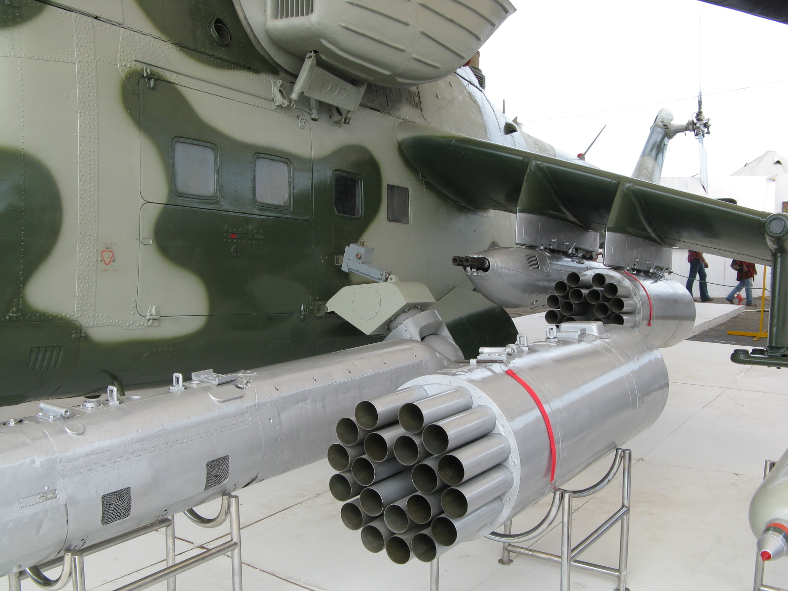 Mi-24V Attack Helicopter - Sri Lanka Air Force